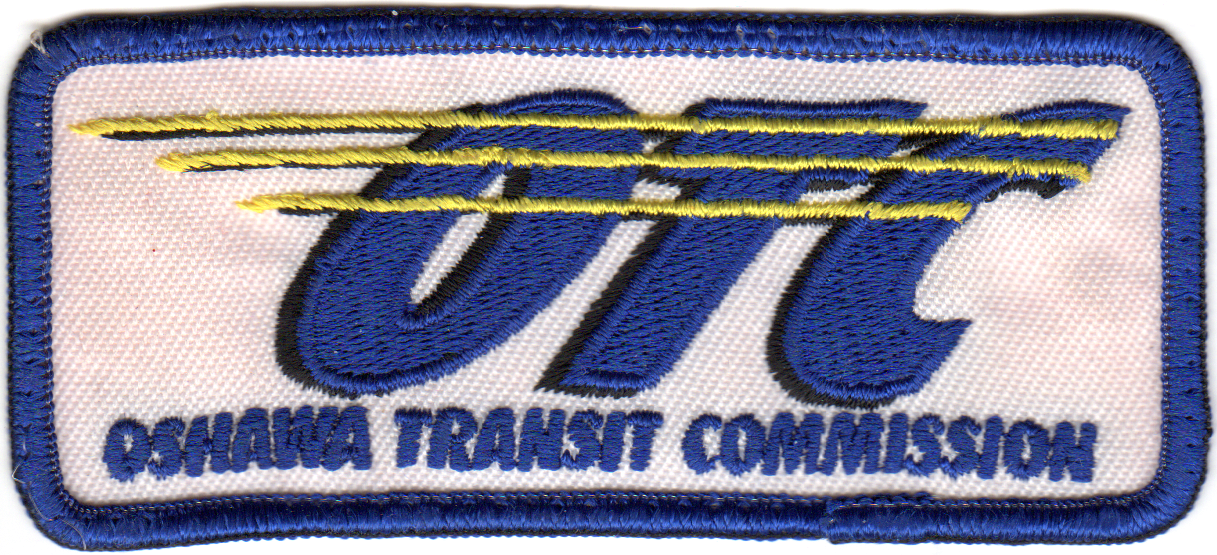 An OTC (Oshawa Transit Commission) patch worn on uniforms of the bus mechanics. The patch actually has a white background, although it does appear pink in this scan.